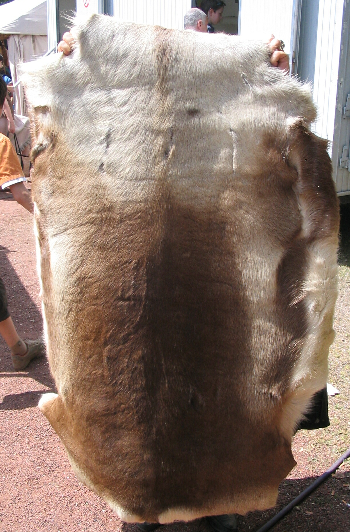 Reindeer skin.